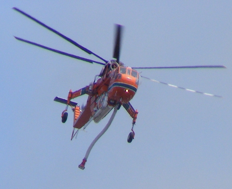 (from Image:Elvis helicopter over bushfire smoke.jpg) Erickson S-64 Air-Crane Helitanker... Probably the one named "Incredible Hulk". Fighting a fire near the Millbrook Reservoir, Adelaide, South Australia. It has just dropped a load and is turning back to the reservoir for another.